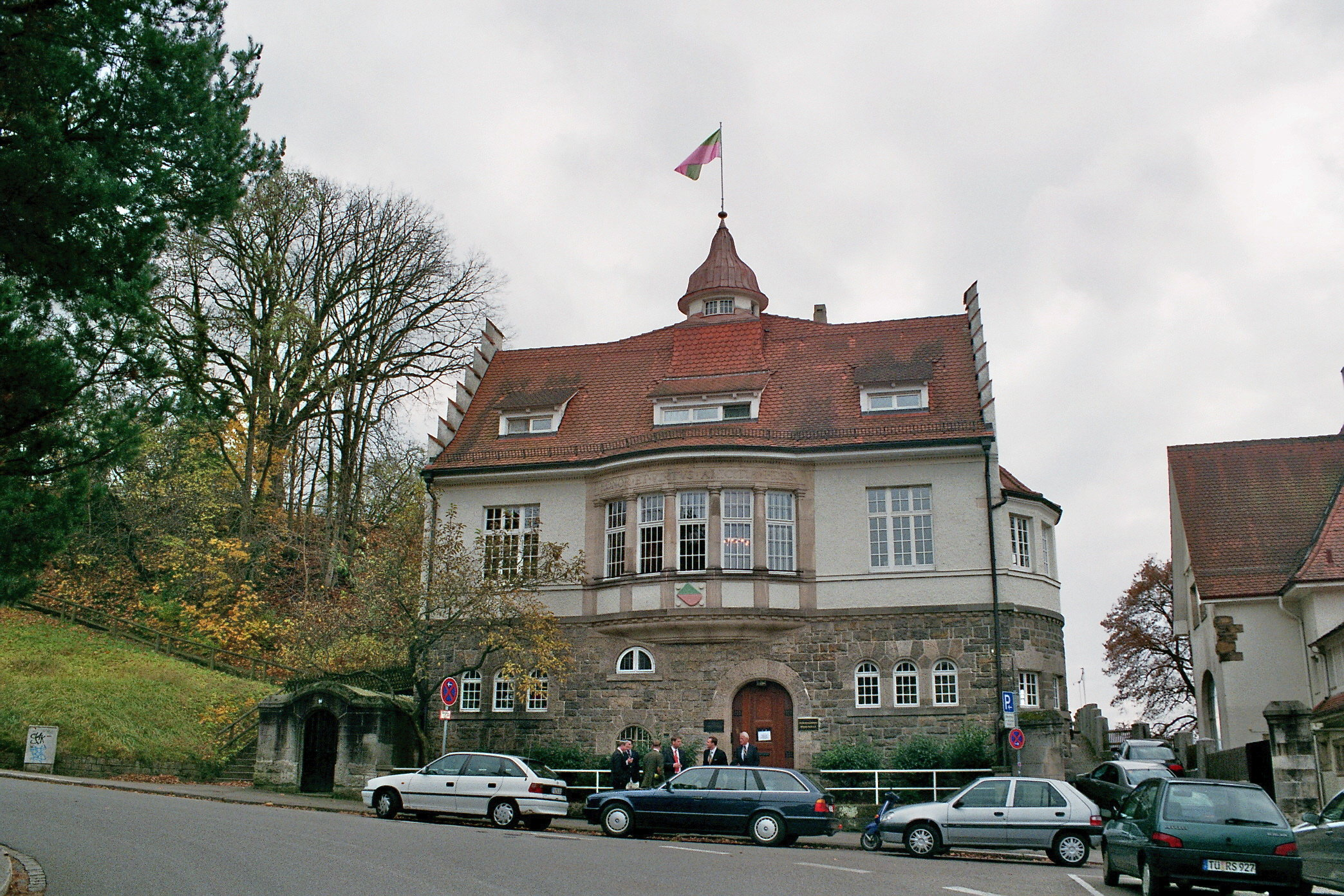 House of student fraternity Corps Franconia Tübingen/Germany, north view from the street